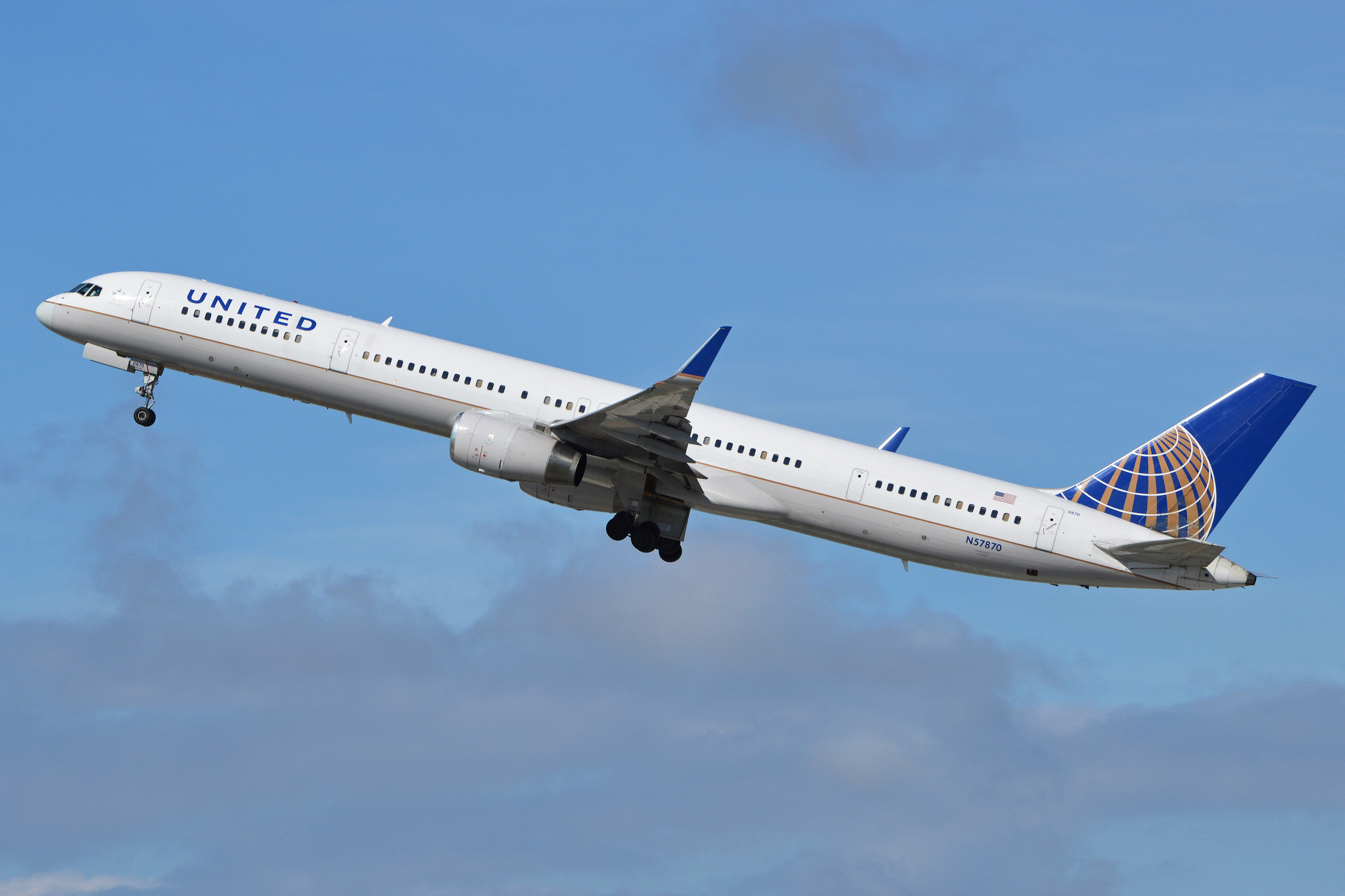 c/n 33525, l/n 1031. Built 2003. Seen departing LAX and taken from the Imperial Hill spotting location. Los Angeles, California, USA. 08-2-2014